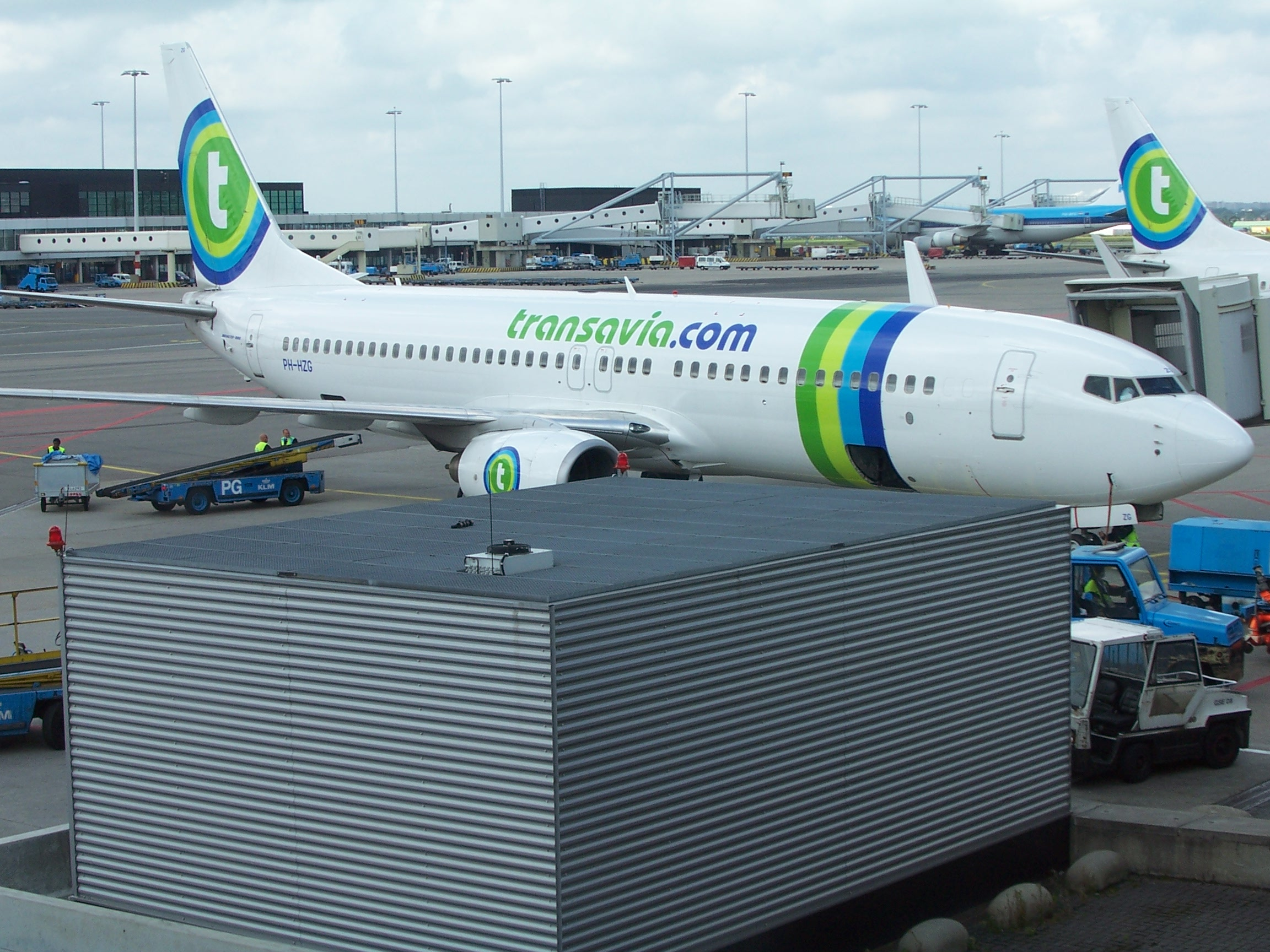 A Boeing 737 from Transavia